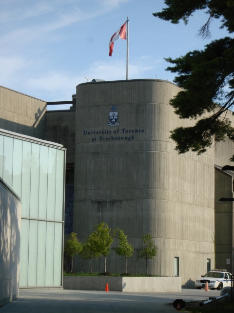 Author: SM108 Source: My Sony DSC-W100